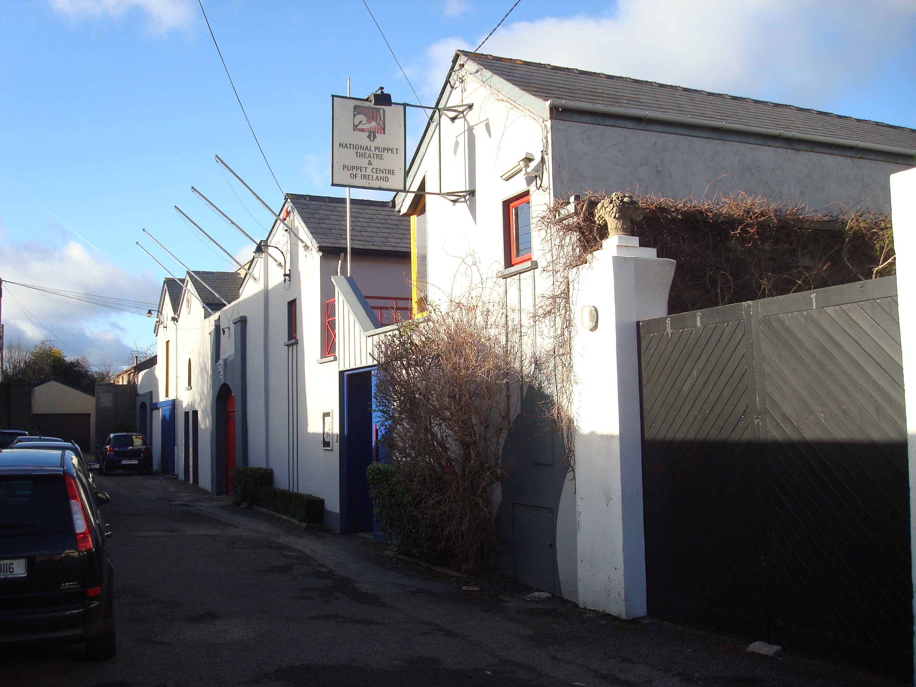 The Lambert Puppet Theatre in Monksown, Co. Dublin.